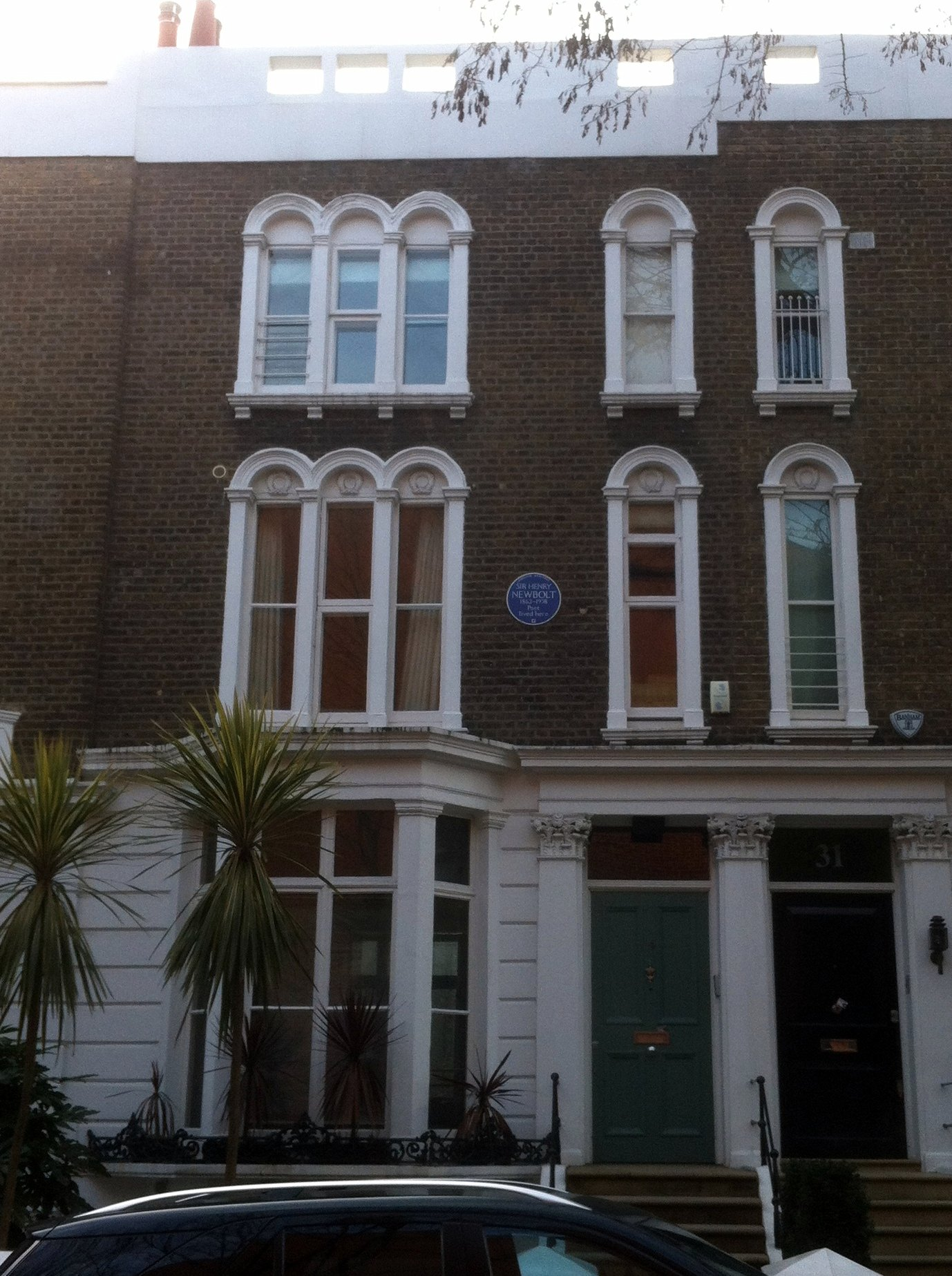 Sir Henry Newbolt